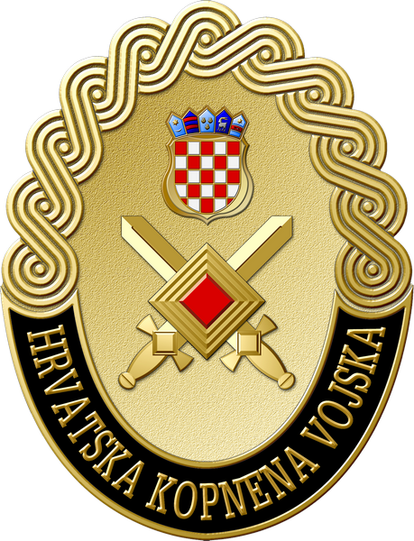 Seal of Croatian Army